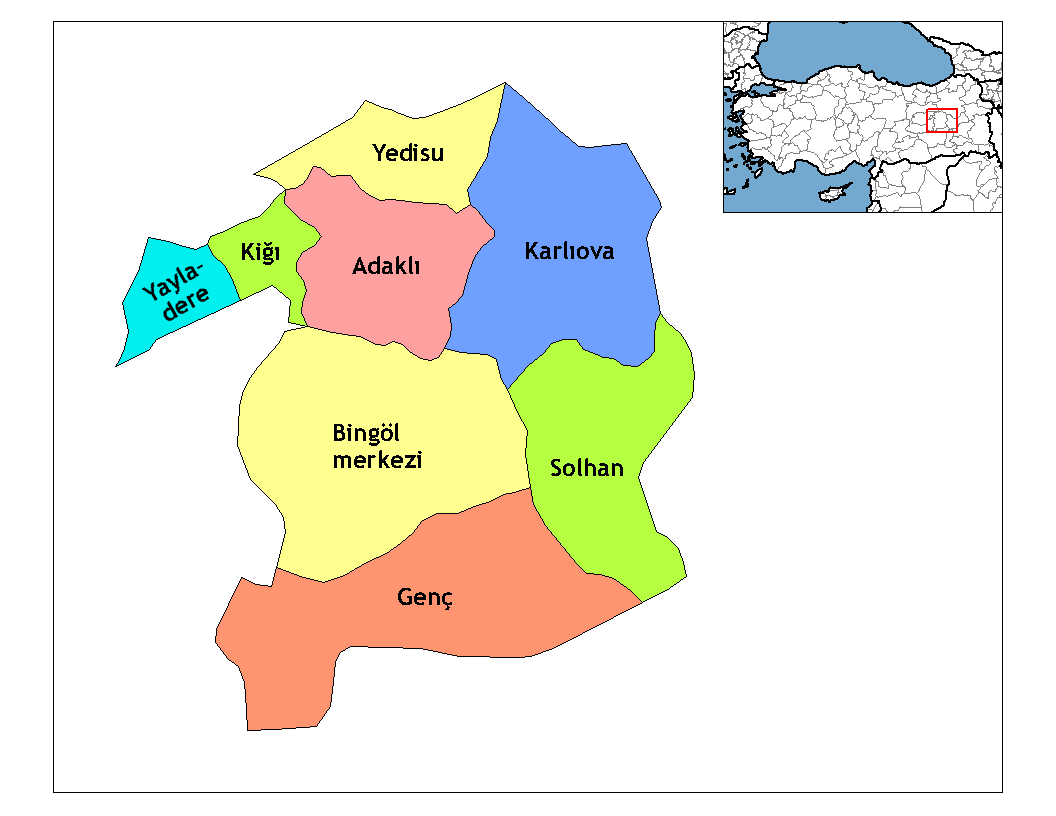 Map of the districts of Bingöl province in Turkey. Created by Rarelibra 18:56, 1 December 2006 (UTC) for public domain use, using MapInfo Professional v8.5 and various mapping resources. Edited by One Homo Sapiens Corrected text where İ,Ş,ı,ğ,or ş occurs in name. Source: [statoids-com]. Increased font size and enhanced color differences among adjacent districts.